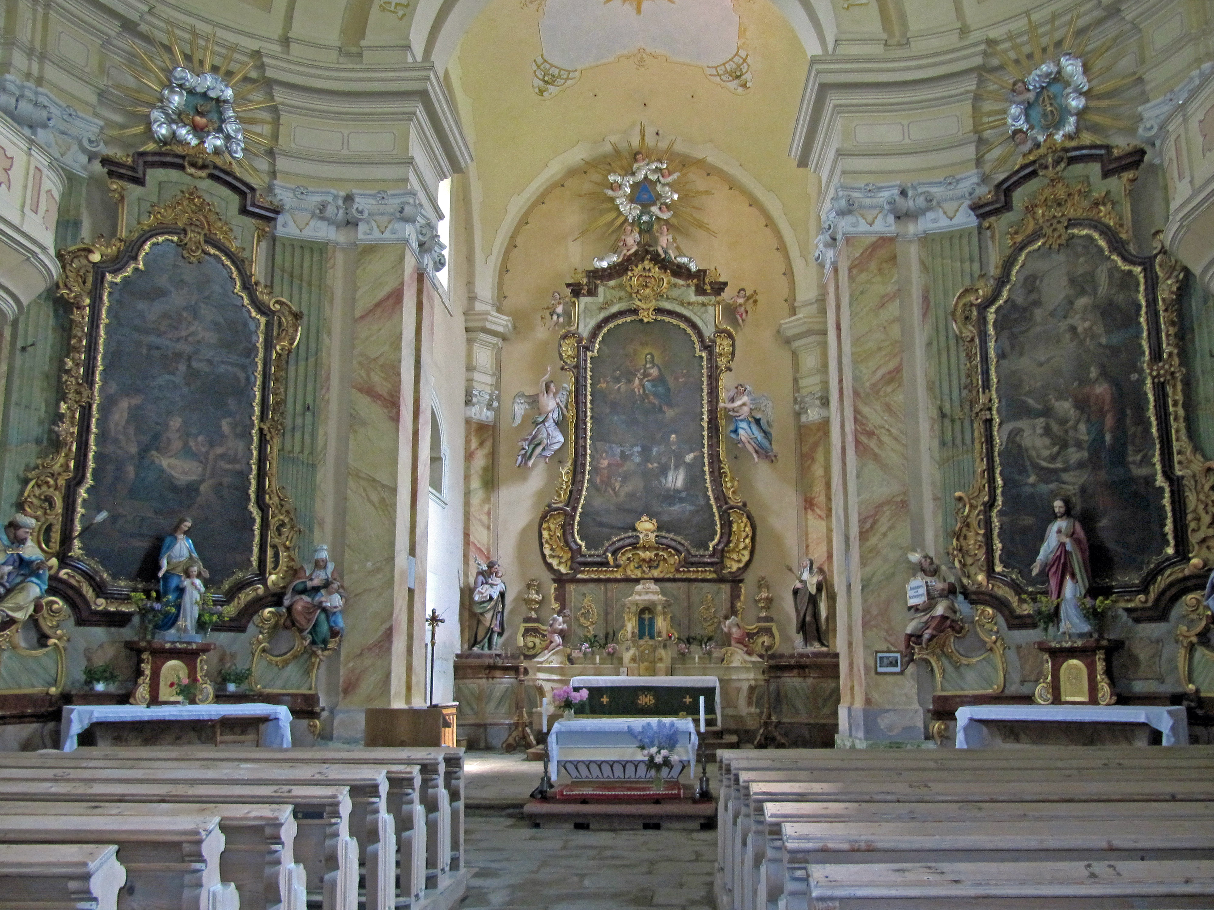 Staré Křečany in Děčín District, Czech Republic. Interior of the church of Saint John of Nepomuk.